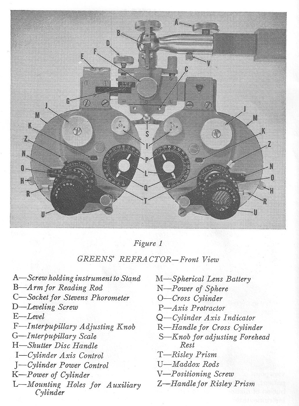 Green's Refractor